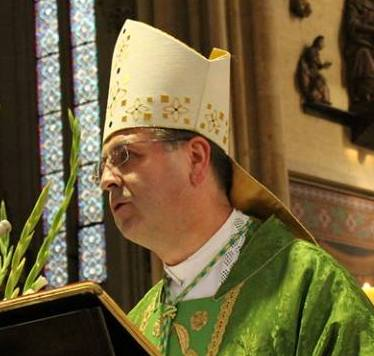 Msgr. Ivan Šaško, Auxiliary bishop of Zagreb